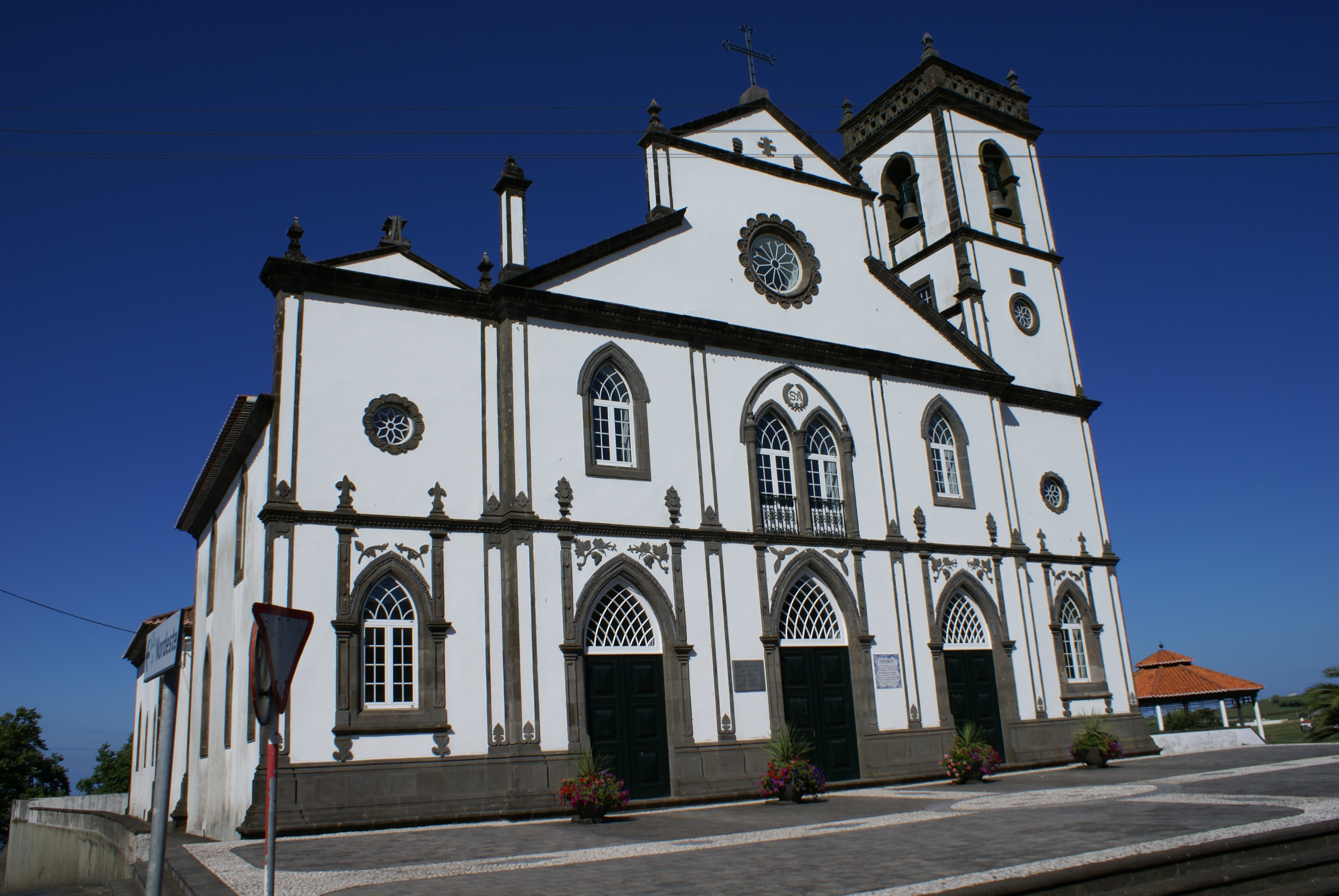 Front façade of Church of Santo António do Nordestinho, Nordeste, São Miguel (Azores), Portugal